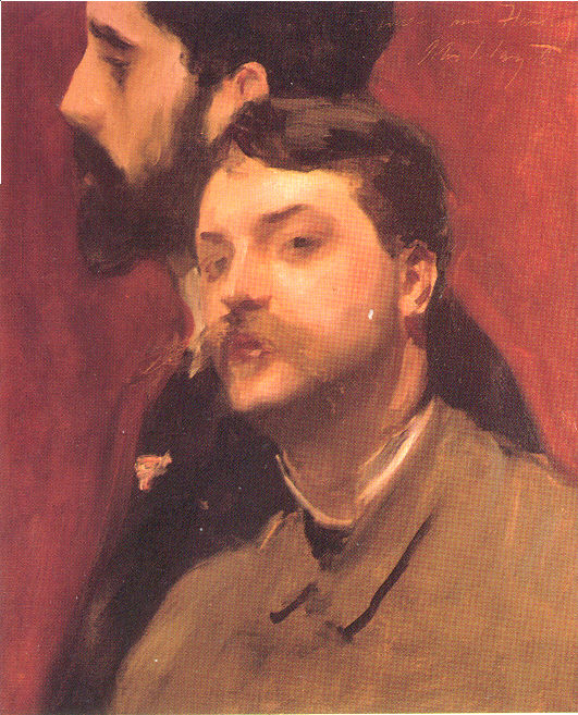 Francois Flameng and Paul Helleu John Singer Sargent -- American painter 1882-85 Private collection Oil on canvas 53.3 x 43.2 cm (21 x 17 in.) Jpg: local source